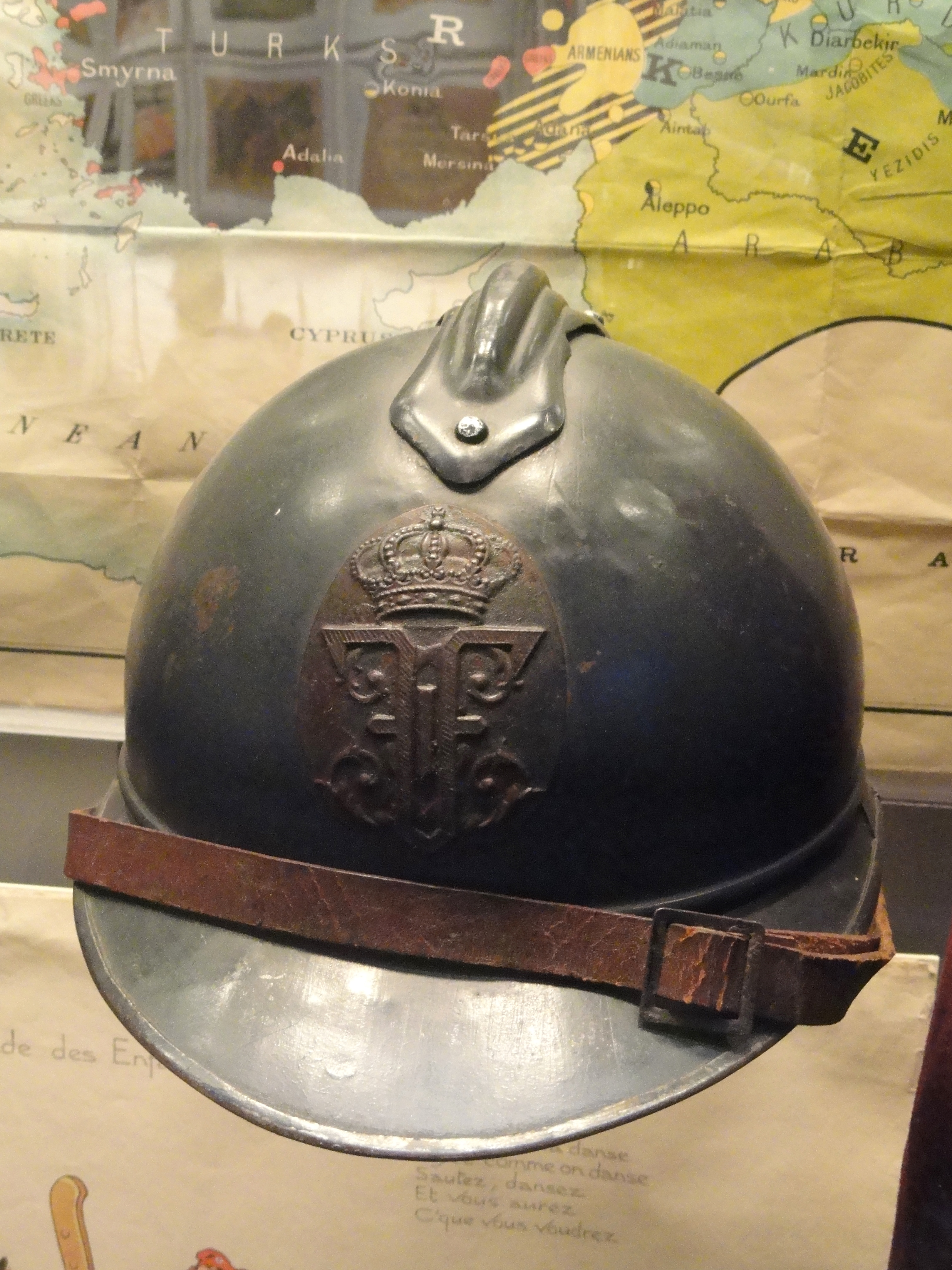 Uniform exhibited in the National World War I Museum at the Liberty Memorial, 100 W. 26th Street, Kansas City, Missouri, USA.